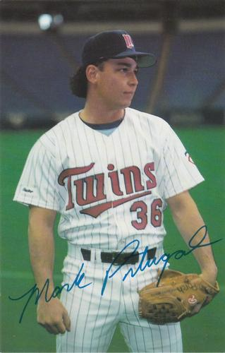 Professional baseball player Mark Portugal